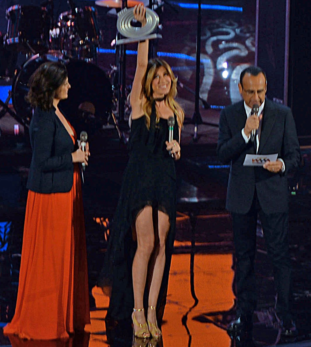 Virginia Raffaele during the Wind Music Awards 2016 ceremony at Verona Arena.